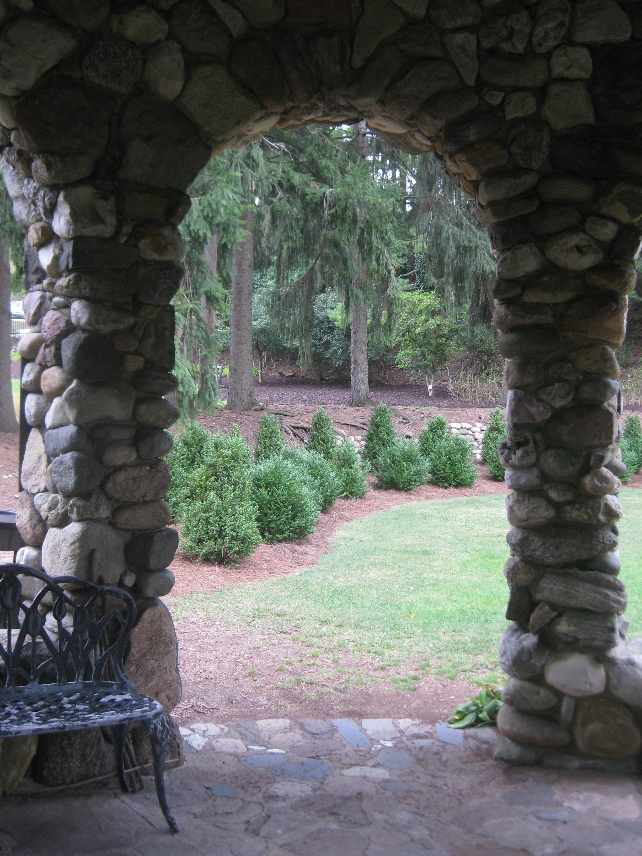 Slayton's grassy amphitheater as seen from the main stone gazebo